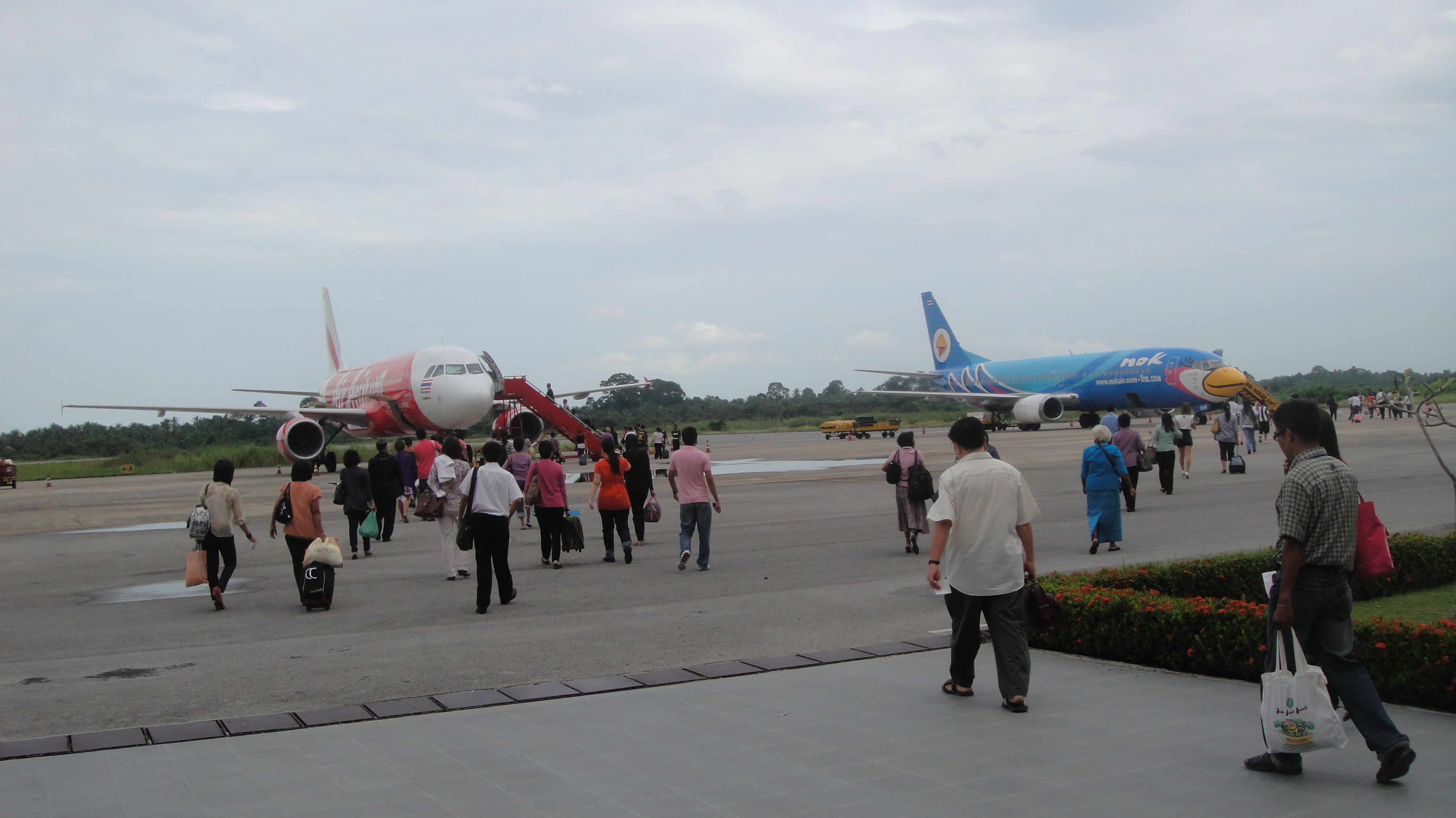 Nokair and ThaiAirAsia Parking at Nakhon si thammarat airport and preparing departure to Bangkok